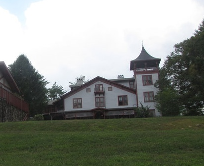 The main attraction on the Bonclarken grounds.